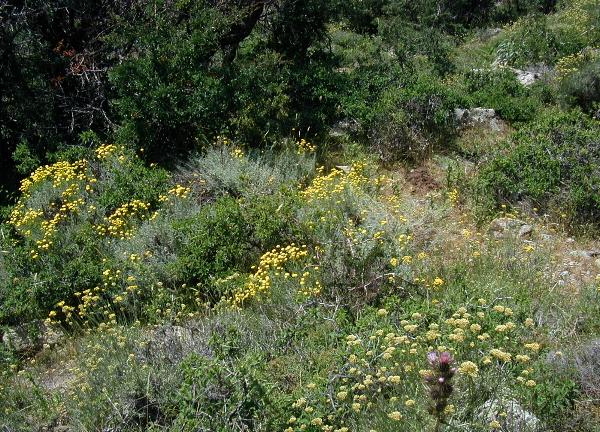 Anthemis tinctoria: Natural habitat (Corsica).